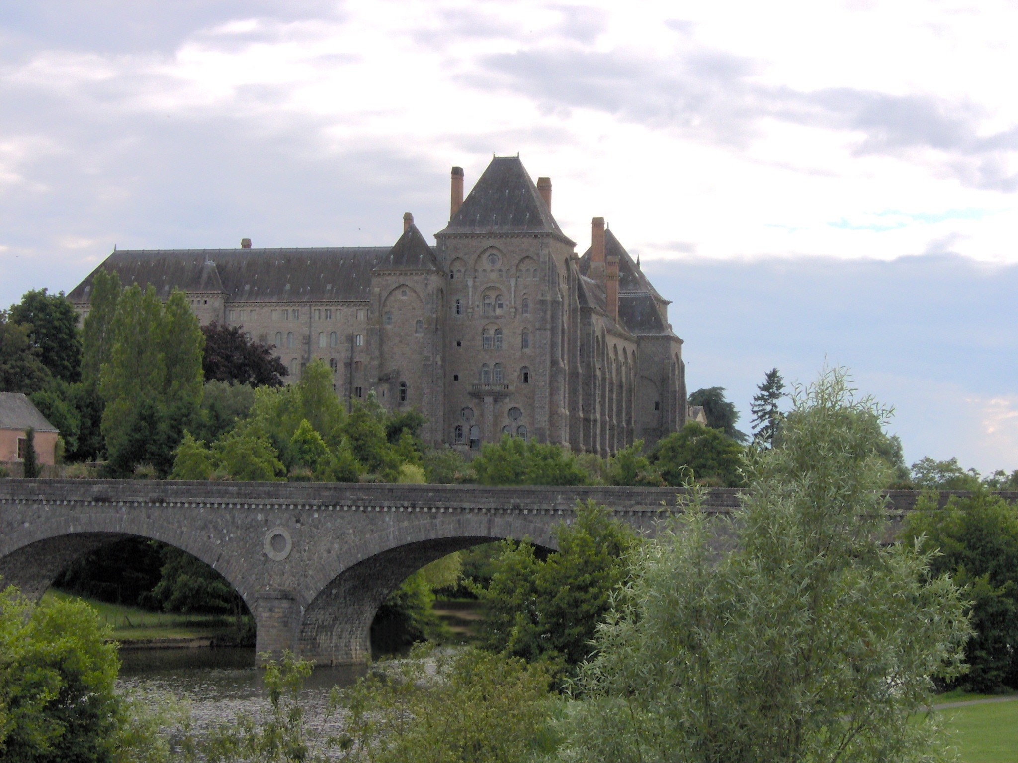 Abbey of Solesmes, seen since the Port of Solesmes, Sarthe, France